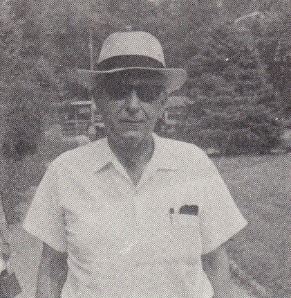 Photo of Serbian political prisoner Đura Đurović.